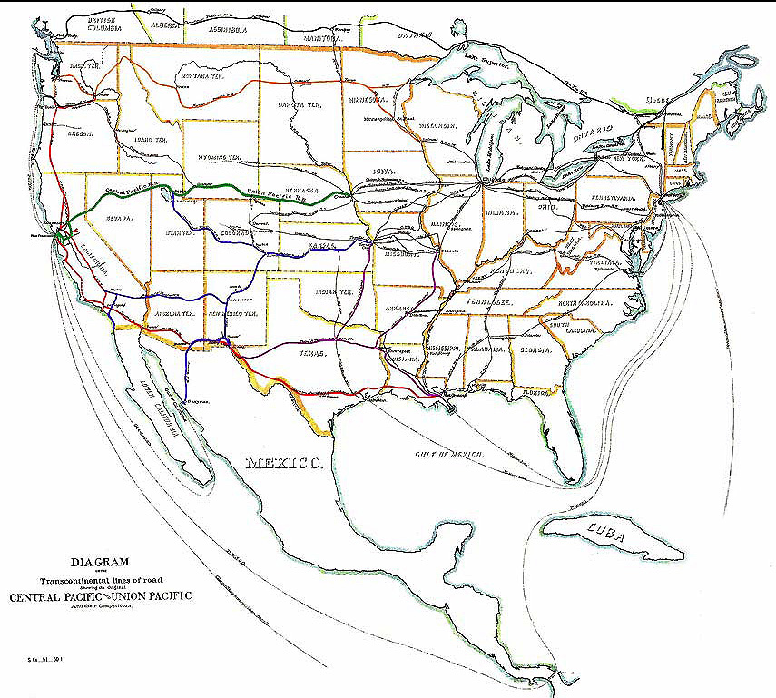 Composited digital restoration of the 1887 map entitled "Diagram of the Transcontinental lines of road Showing the Original Central Pacific and Union Pacific And their Competitors" from the Report to the Congress of the United States, Senate Executive Document No. 51 (50th Congress, 1st Session).